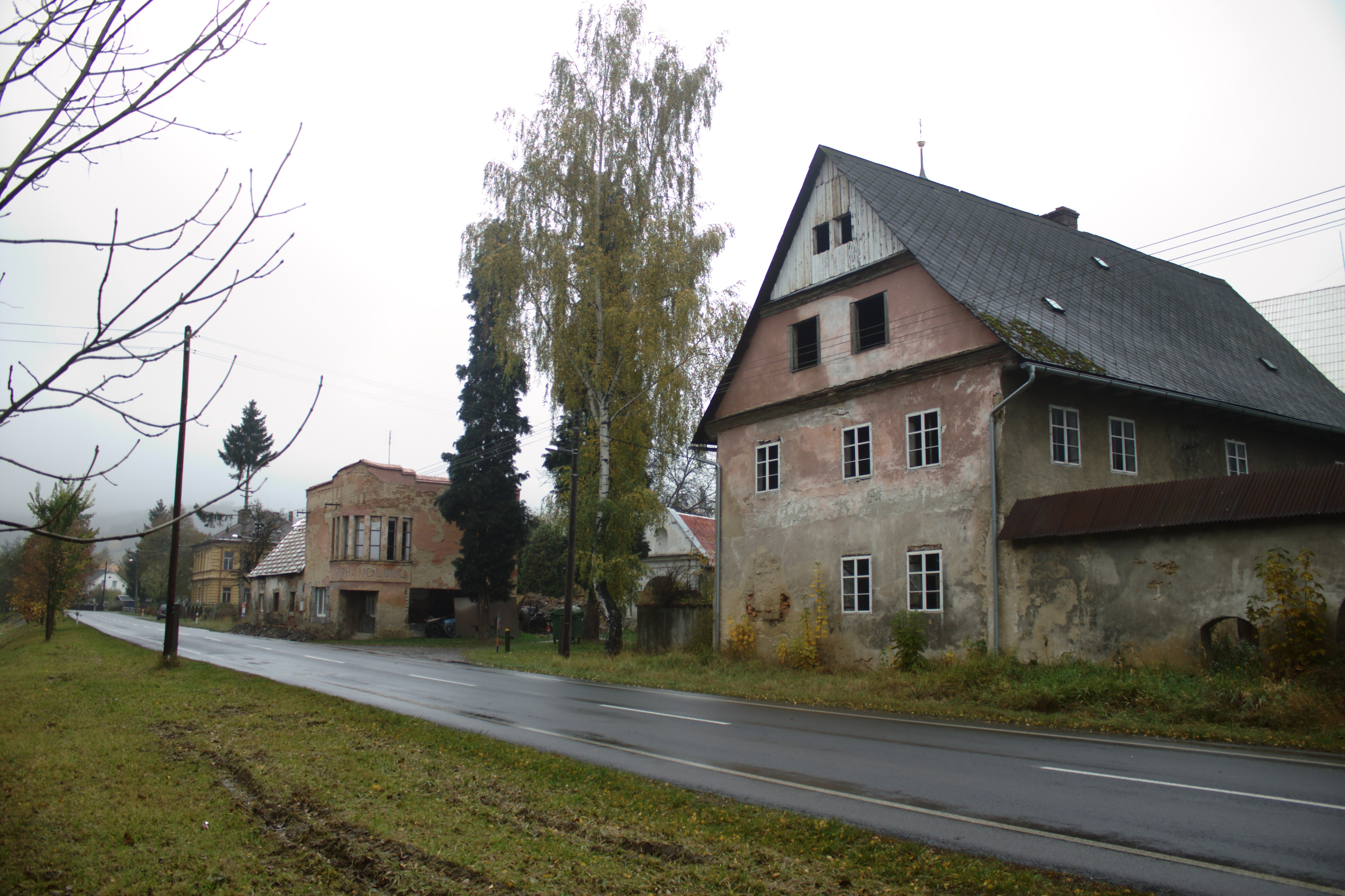 Buildings next to a road in Hynčice, Moravian-Silesian Region, CZ